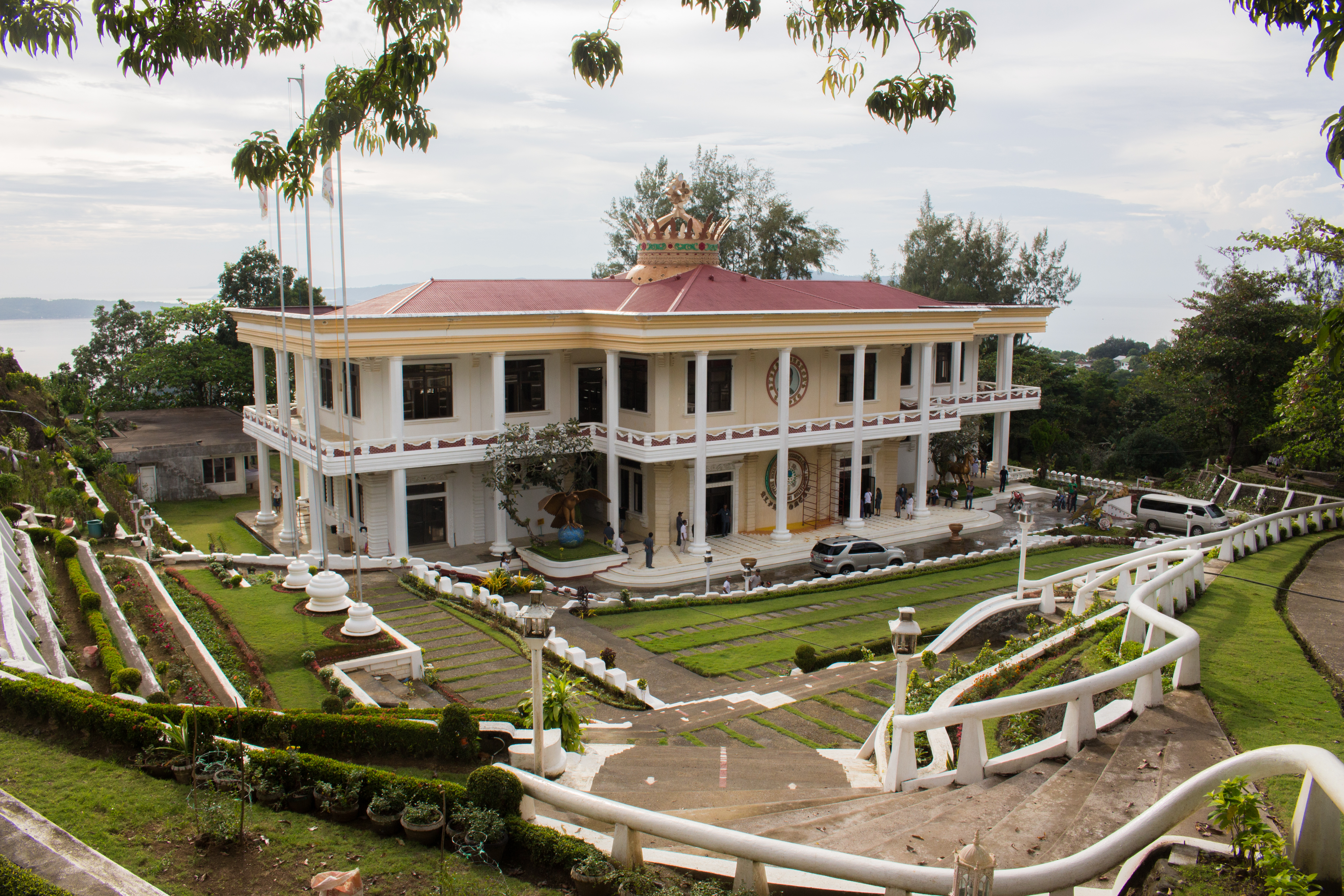 Philippine Benevolent Missionaries Association Shrine in taken from the PBMA Presidents house San Jose, Dinagat Islands, Philippines.